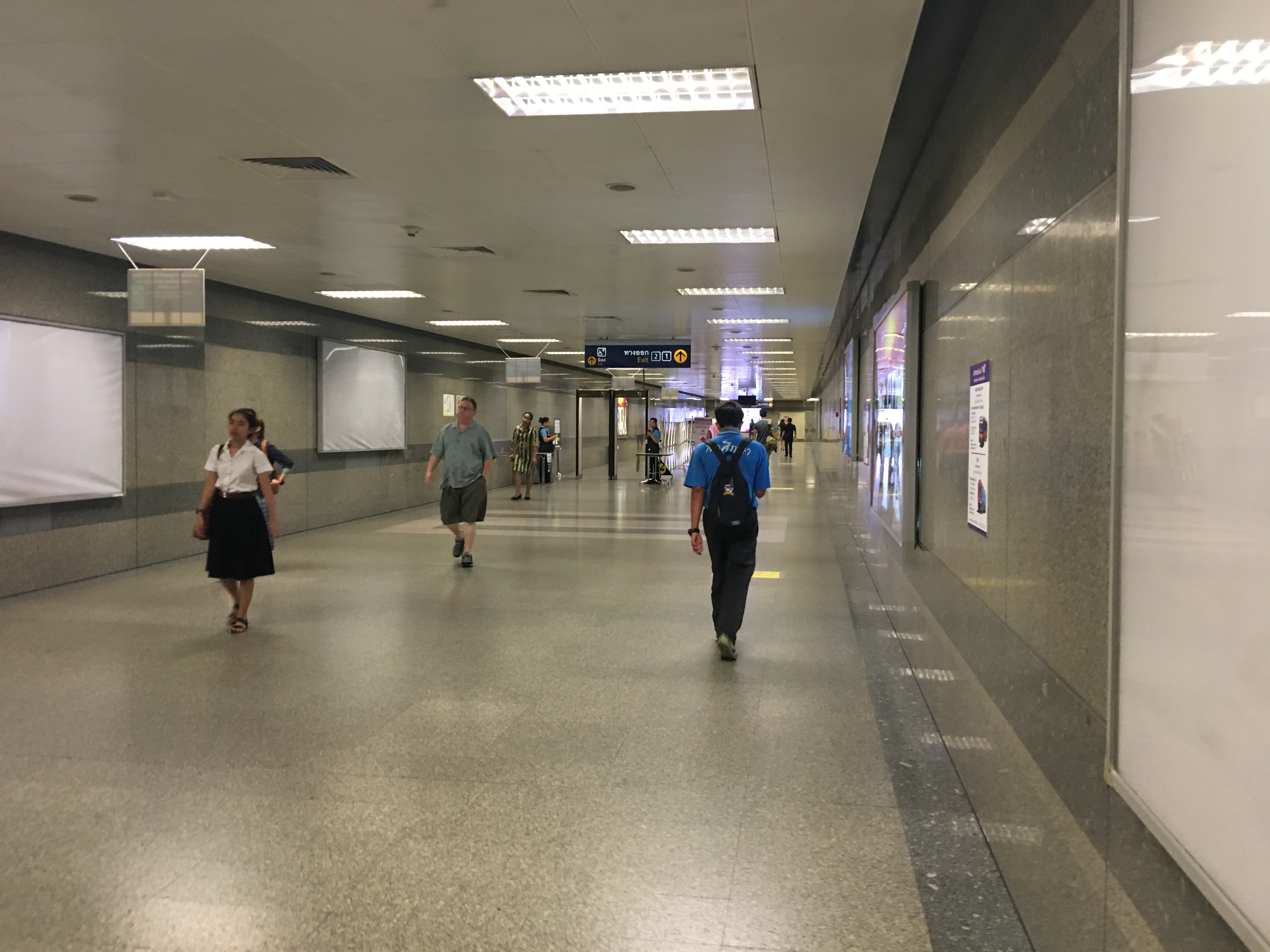 The walkway from Bang Sue MRT Station to Bang Sue Junction Railway Station